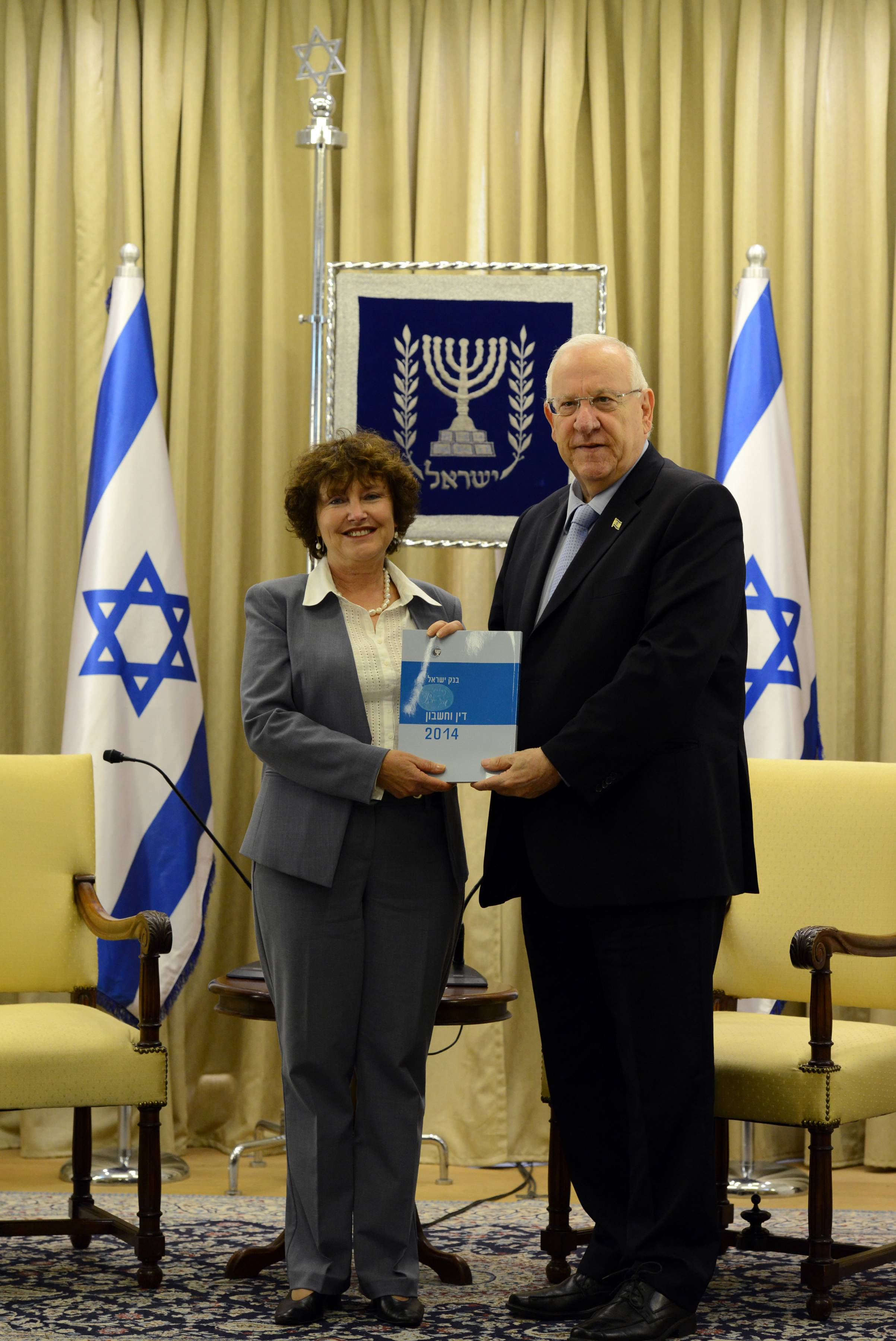 President Reuven Rivlin, receiving the annual report of the Bank of Israel 2014 from the Governor of the Bank of Israel Dr. Karnit Flug. Tuesday, March 31, 2015. Photo credit: Haim Zach / GPO.